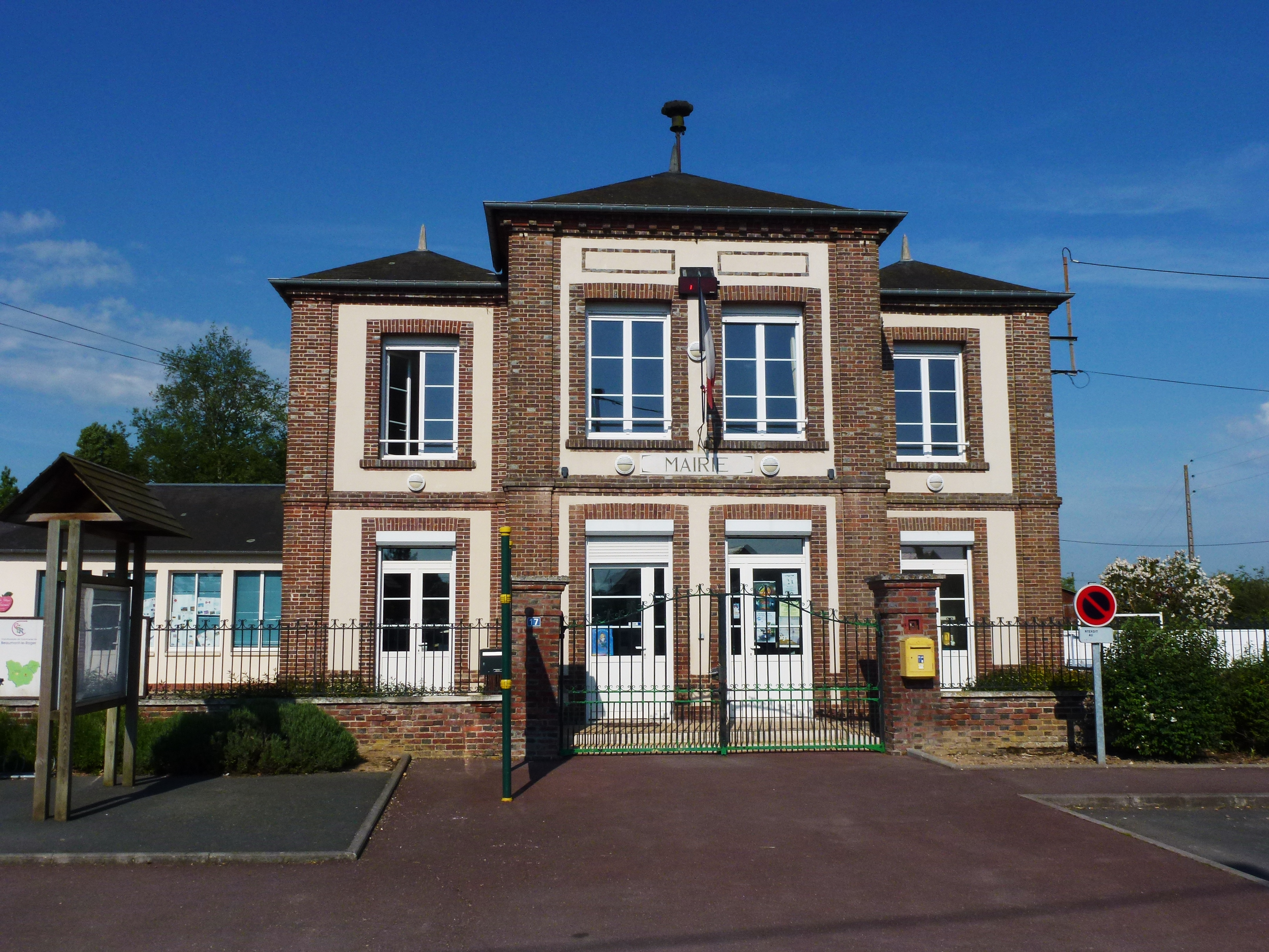 Combon (Eure, Fr) mairie